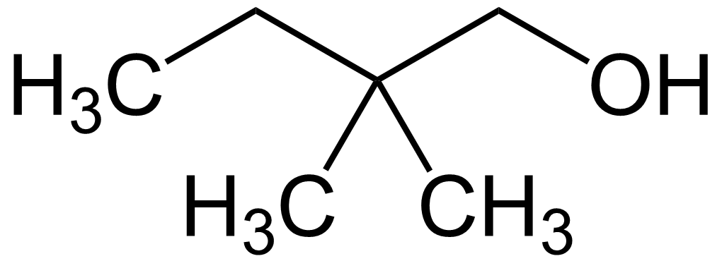 A structural drawing of a hexanol isomer.